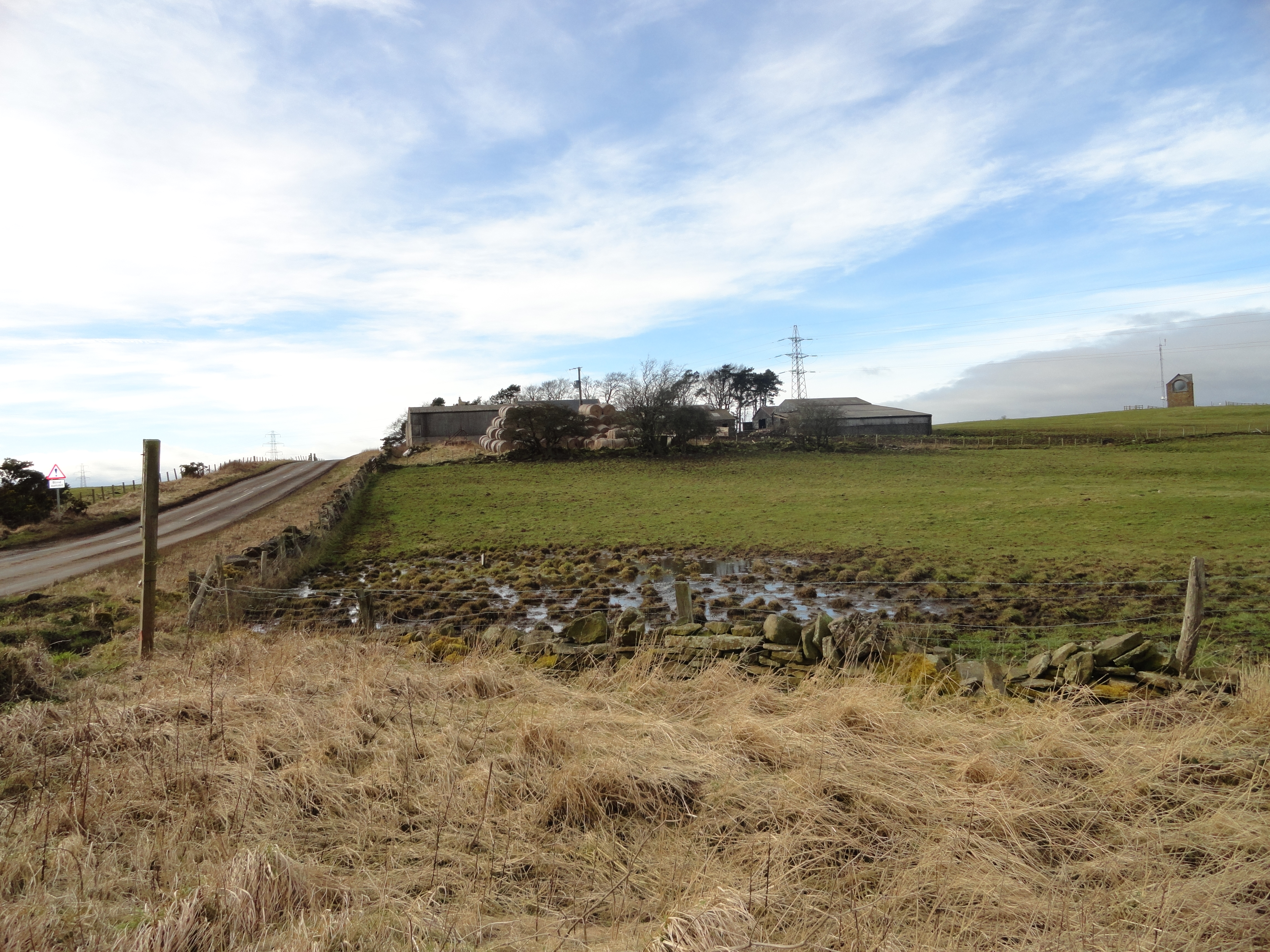 "Currock Hill Farm - Situated prominently on the ridge top beside the road from the hamlet of Leadgate and the village of Hedley on the Hill."